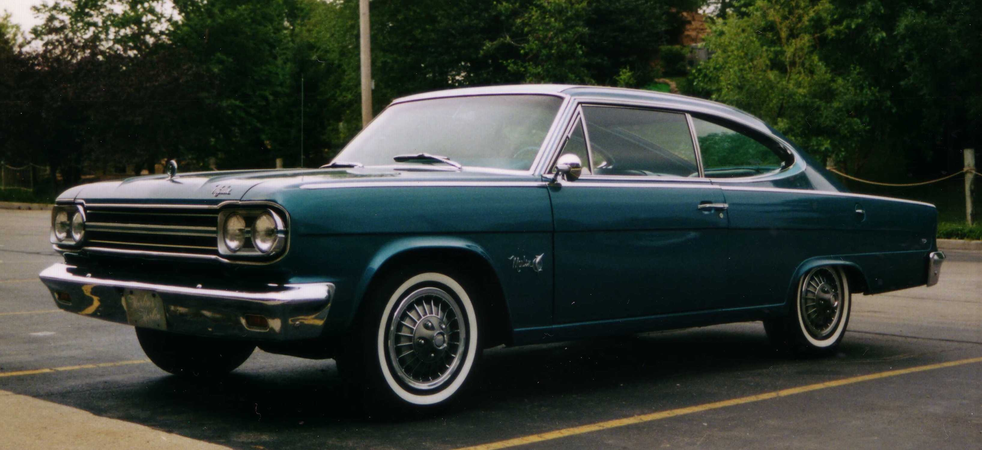 1966 AMC Marlin built by American Motors Corporation (AMC). A sporty "personal-luxury" two-door hardtop (no "B" pillar) with a distinctive fastback design. This car is finished in Marina Aqua - paint code 8A. Picture taken during the Marlin Automobile Club meet that was part of the 100th Anniversary Rambler (1902-2002) July 22 - July 27, 2002, convention that was held in Kenosha, Wisconsin.